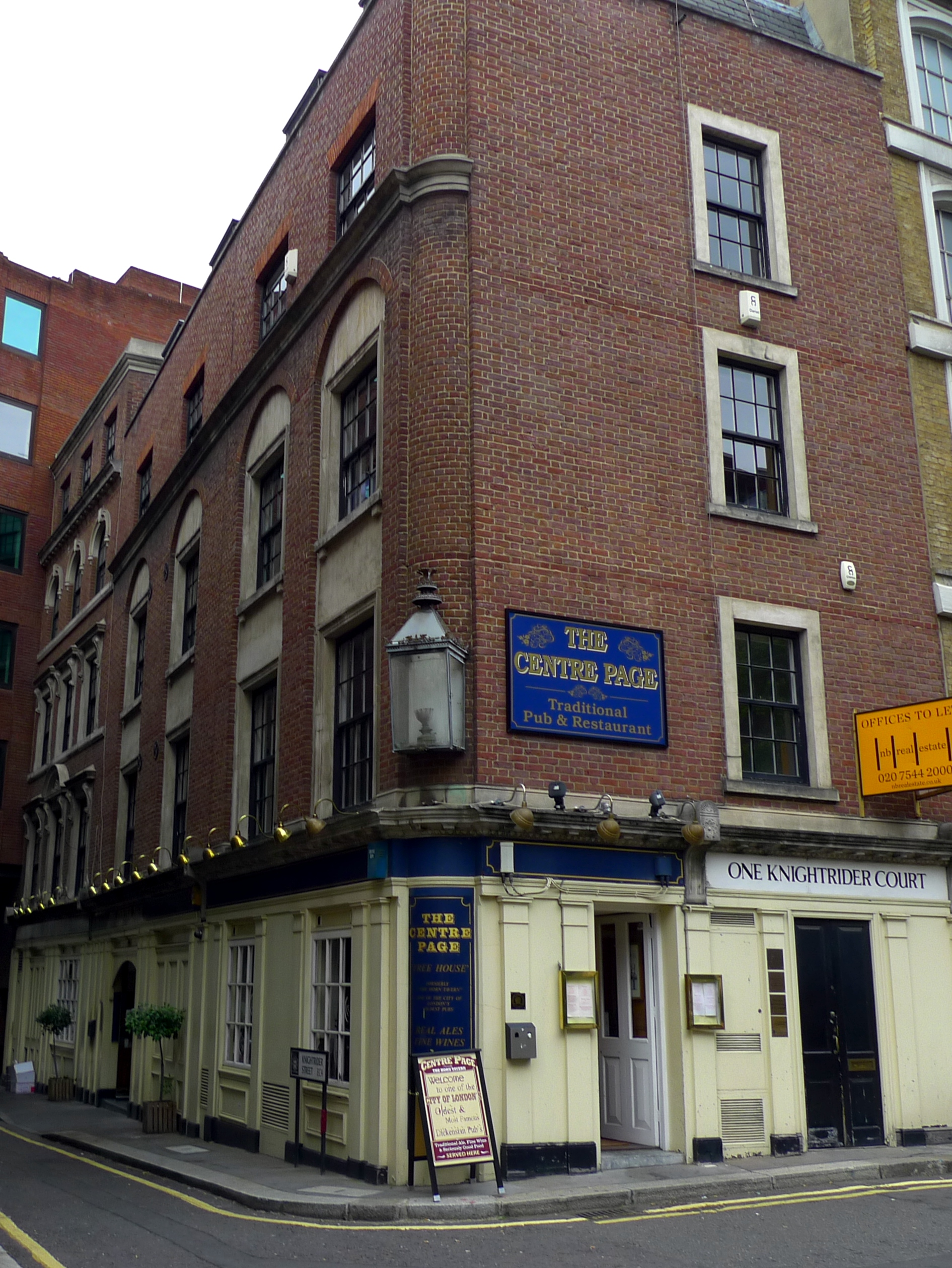 A newspaper-themed pub near St Paul's. (View from side.) Address: 29 Knightrider Street (formerly Little Knightrider Street). Former Name(s): The Horn Tavern; Horn's; St Paul's Wine Vaults. Links: Fancyapint Beer in the Evening